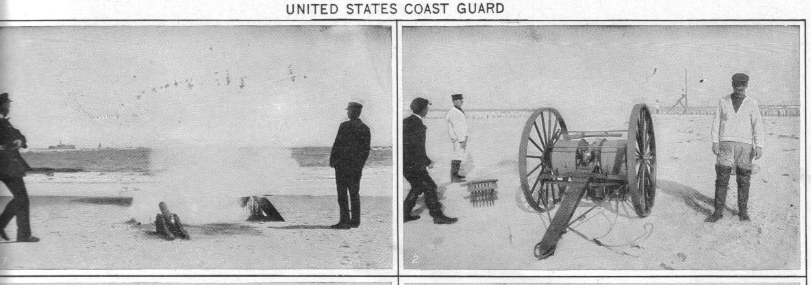 The file is a scanned image of an image gleaned from New International Encyclopedia which is in the public domain.